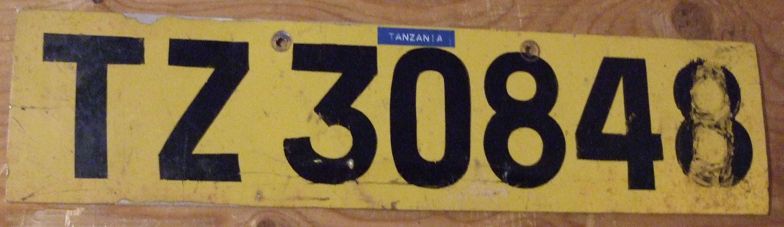 Tanzania license plate, 1970's